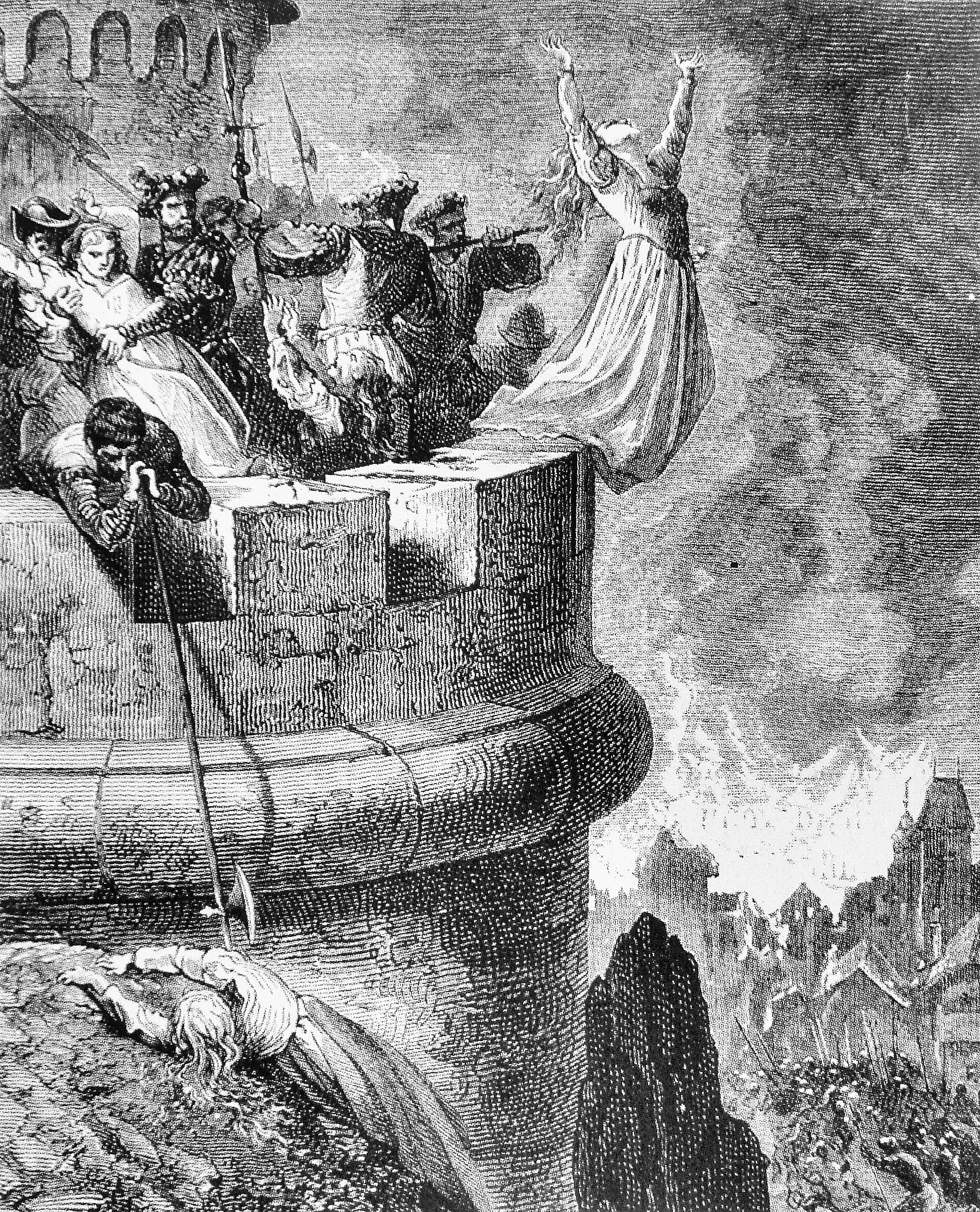 Massacre_of_the_Vaudois_of_Merindol